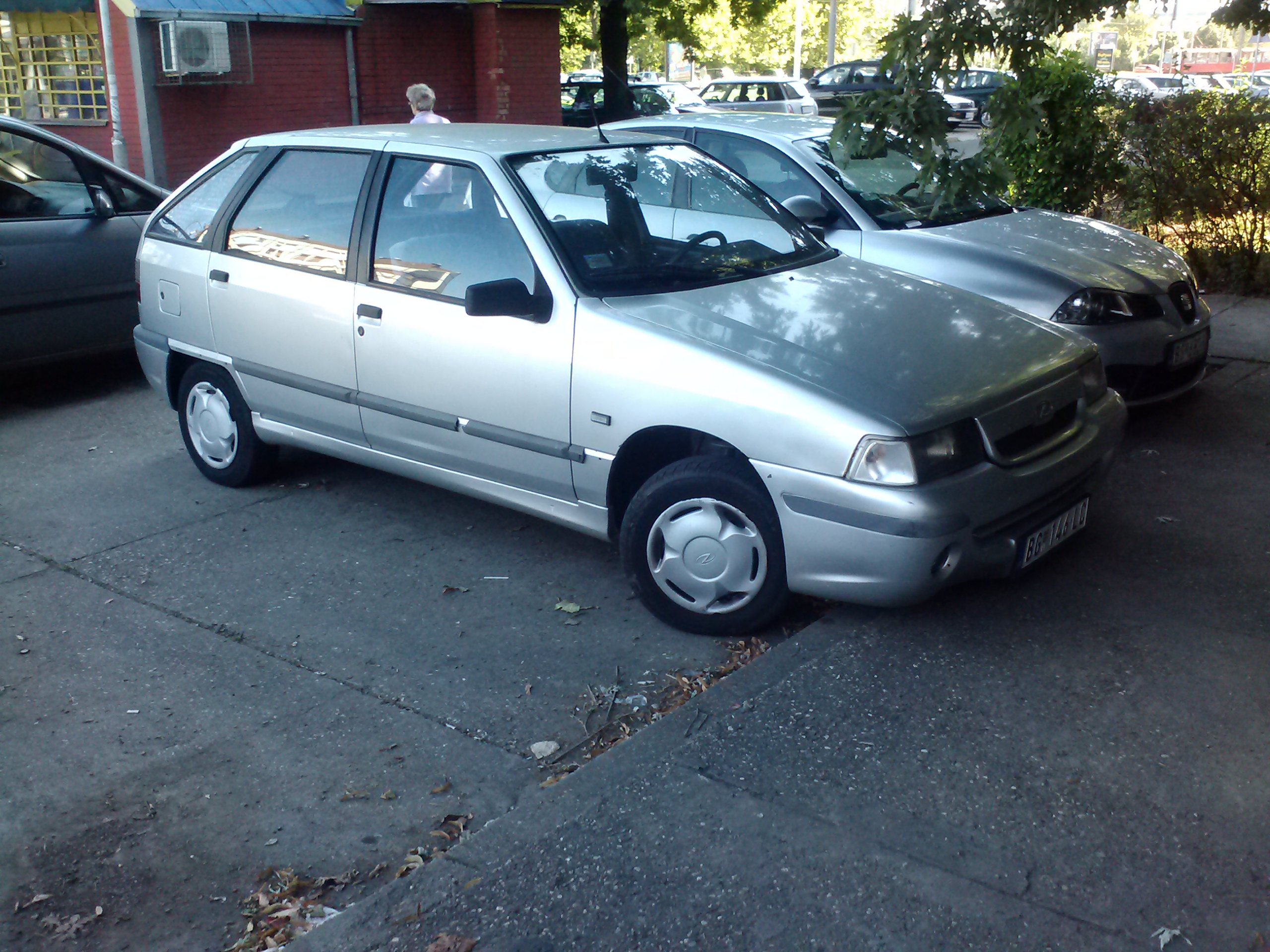 A Zastava Florida In (2002-2008 generation) in a parking space.